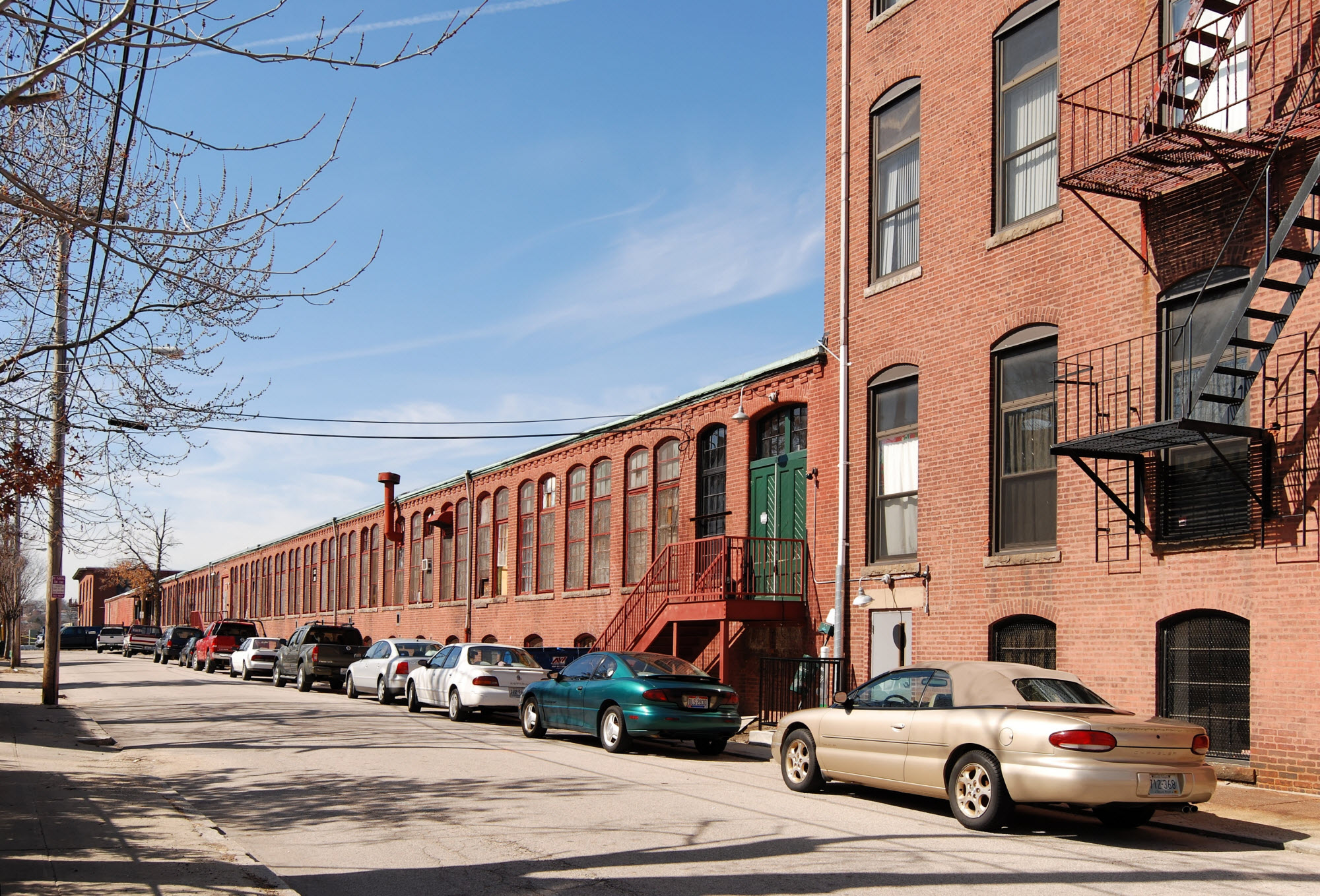 Hope Webbing Mills, Pawtucket, Rhode Island